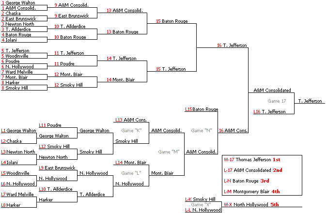 Example of a 10-entry double elimination bracket